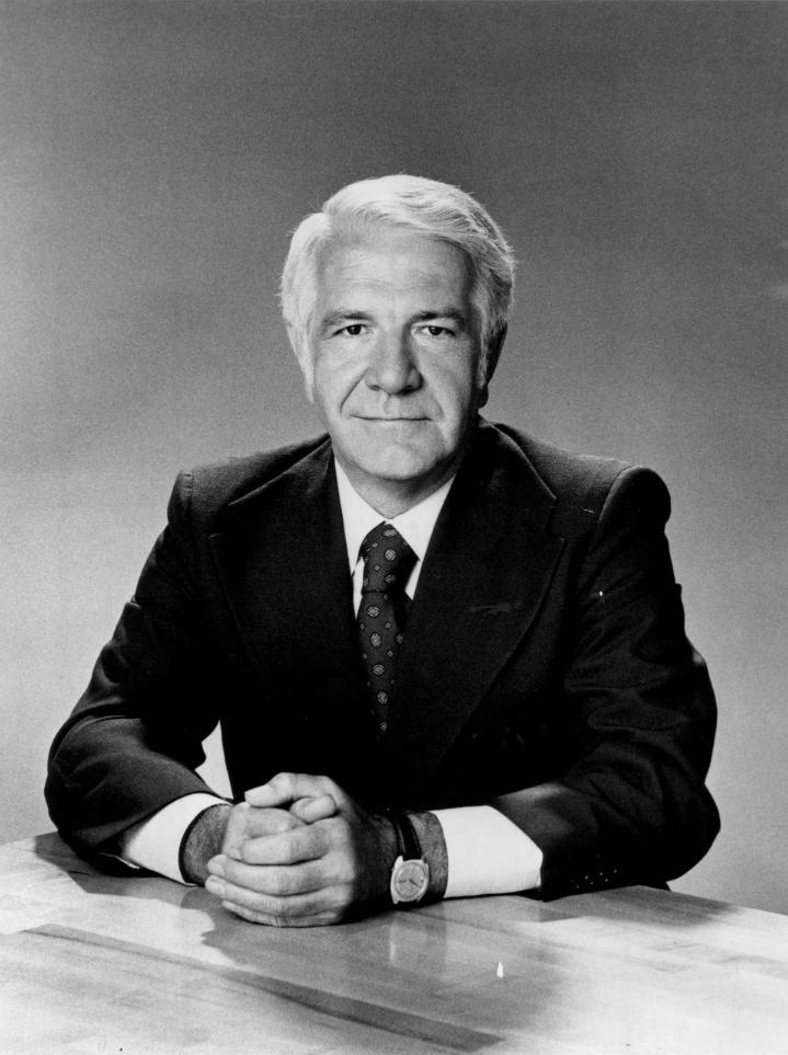 Harry Reasoner in a Press Photo for NBC News in 1976